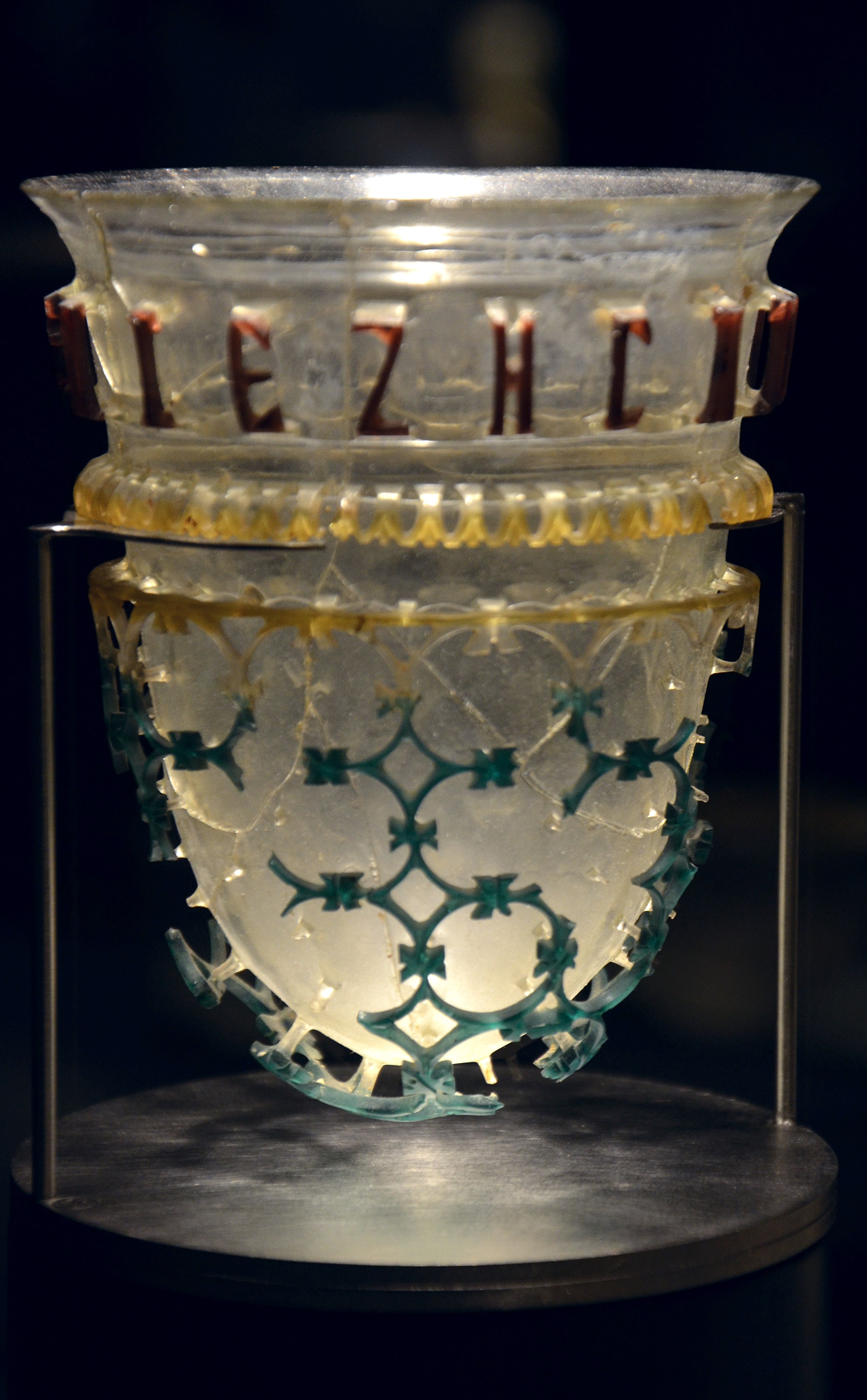 Exhibition: Fragile Luxury - Cologne a glass-making centre in Antiquity, Romano-Germanic Museum, Cologne